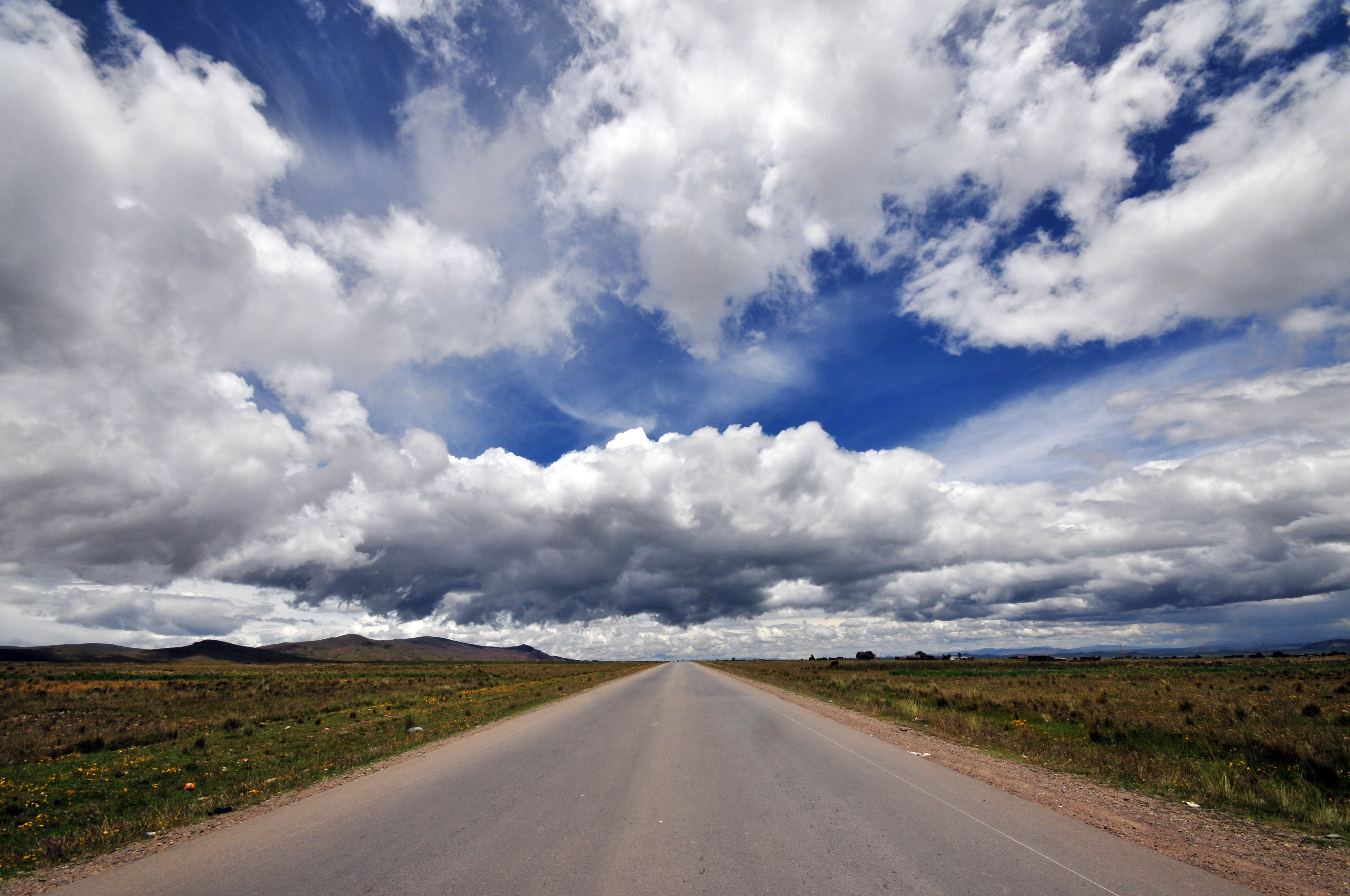 Pic by Neil Palmer (CIAT). General view - highway in the Bolivian Altiplano. Please credit accordingly.